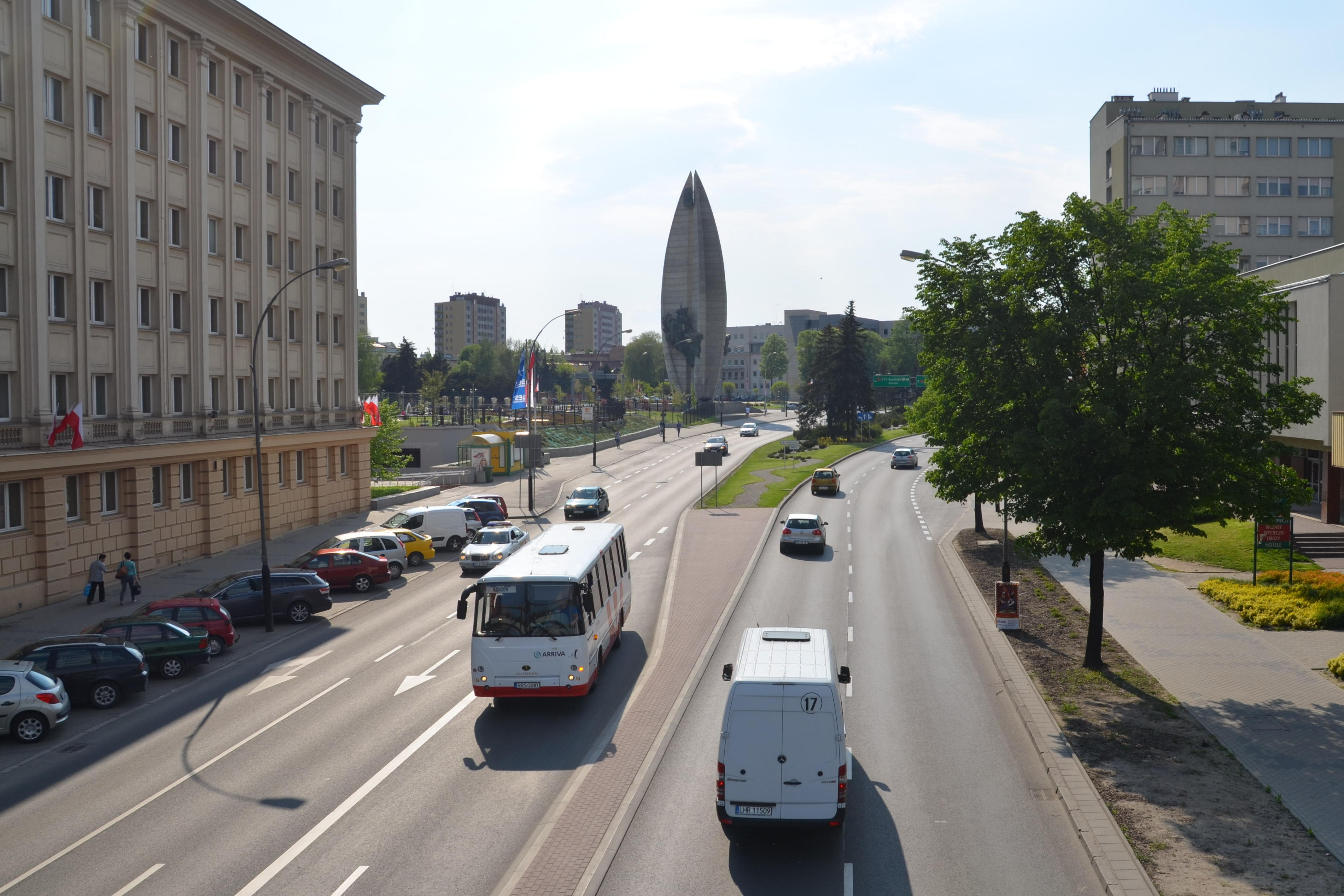 Revolution Monument in Rzeszów